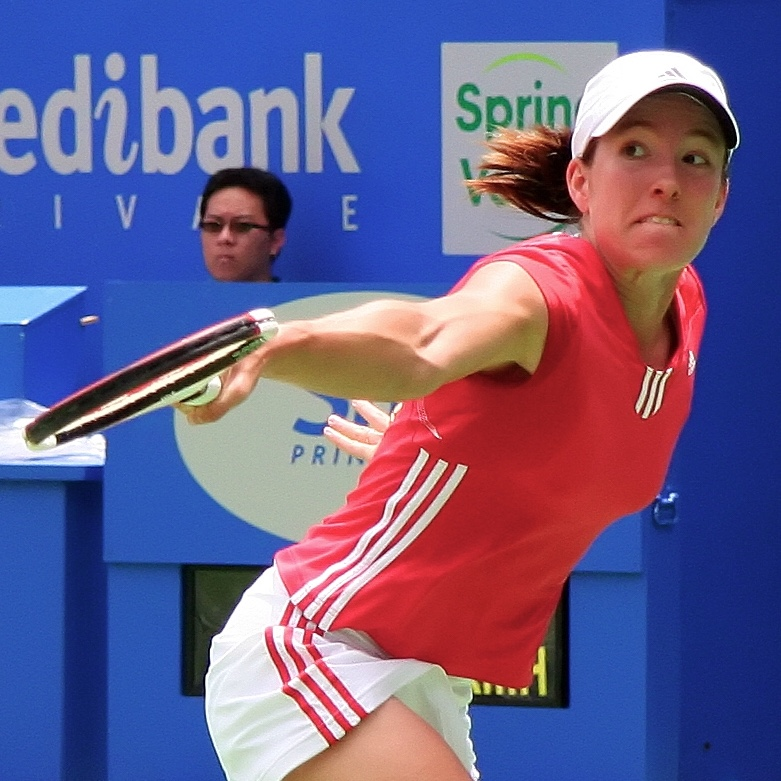 Justine Henin-Hardenne at the 2006 Medibank International.